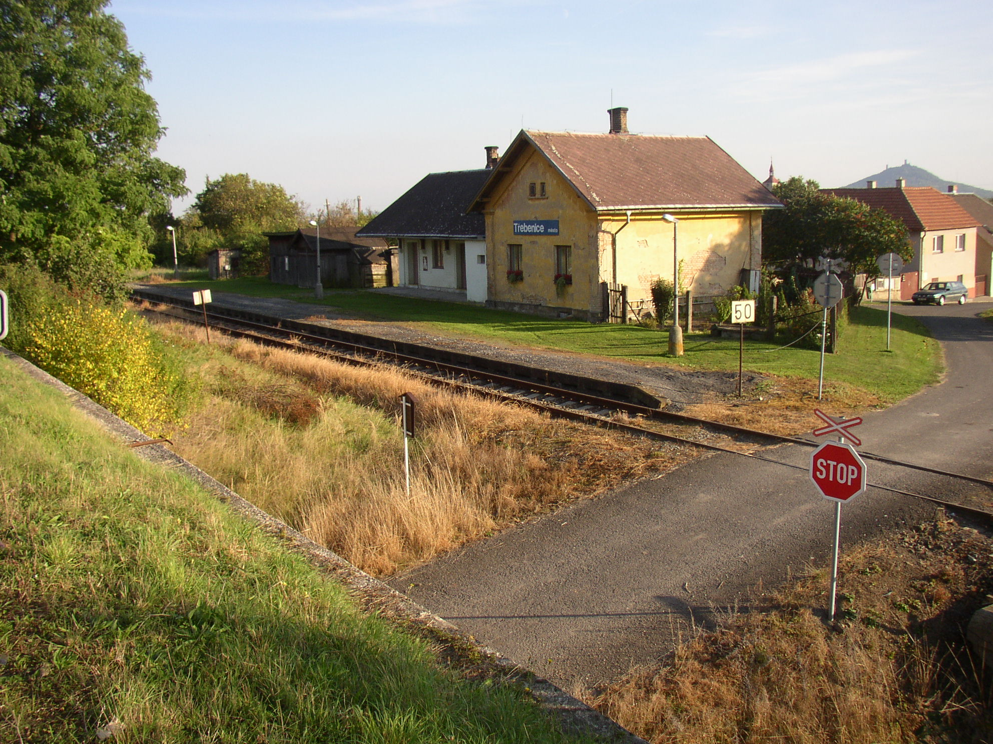 Třebenice, Litoměřice District, Czech Republic. Station Třebenice město on railway line 113 (Lovosice - Most).